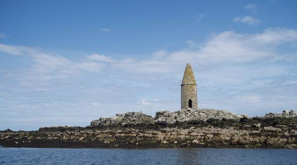 The tower on Ynys Dulas, north east coast of Anglesey